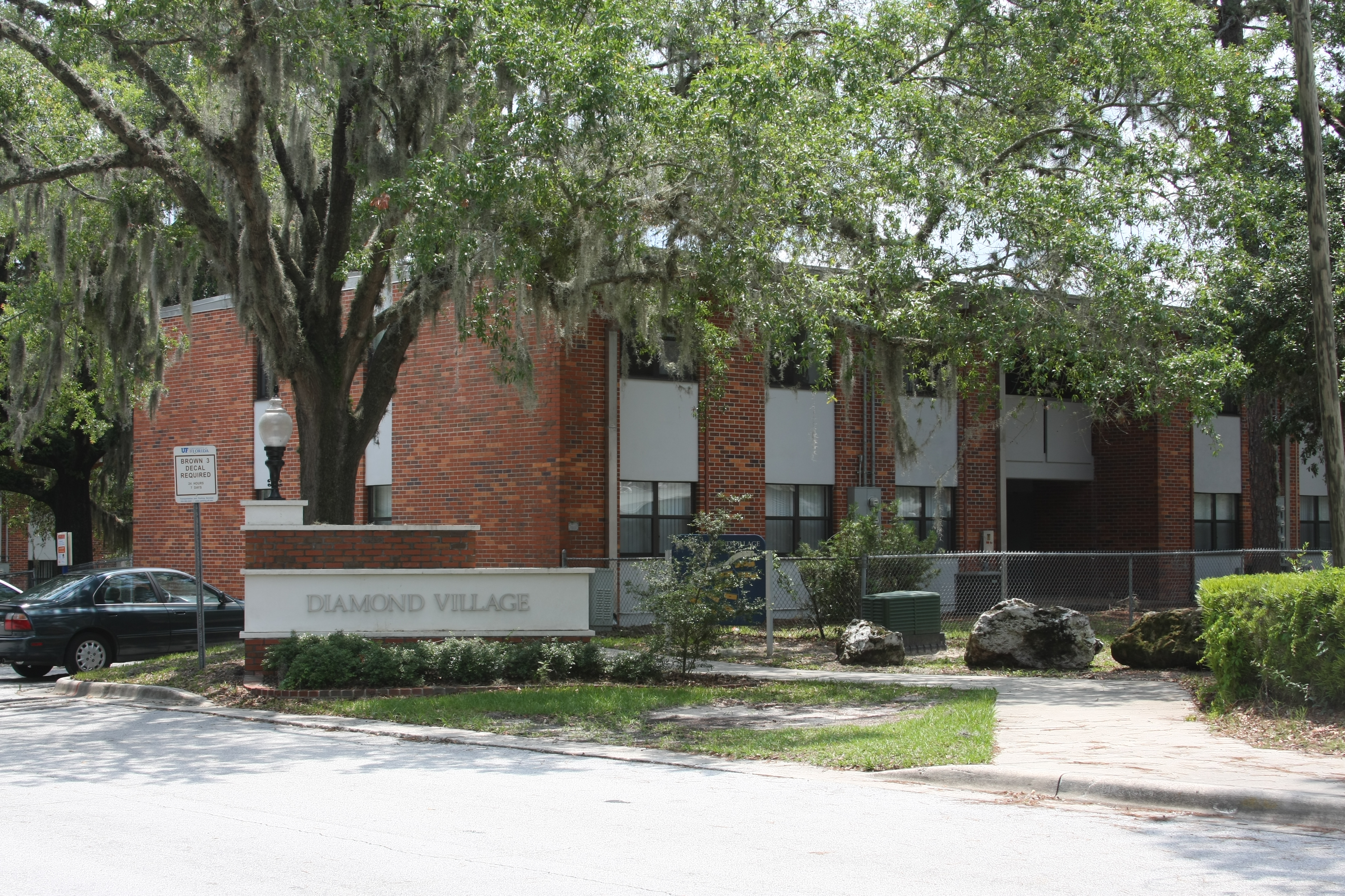 Diamond Village graduate/family housing at the University of Florida